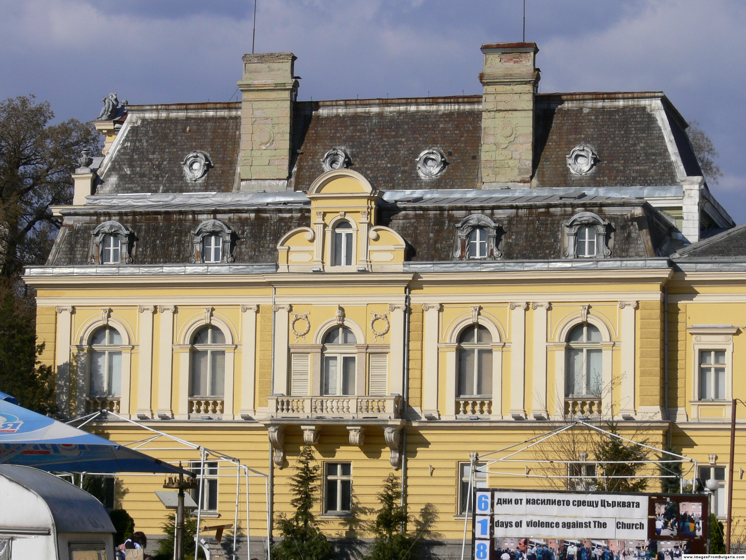 National Art Gallery of Bulgaria. Sofia, Bulgaria